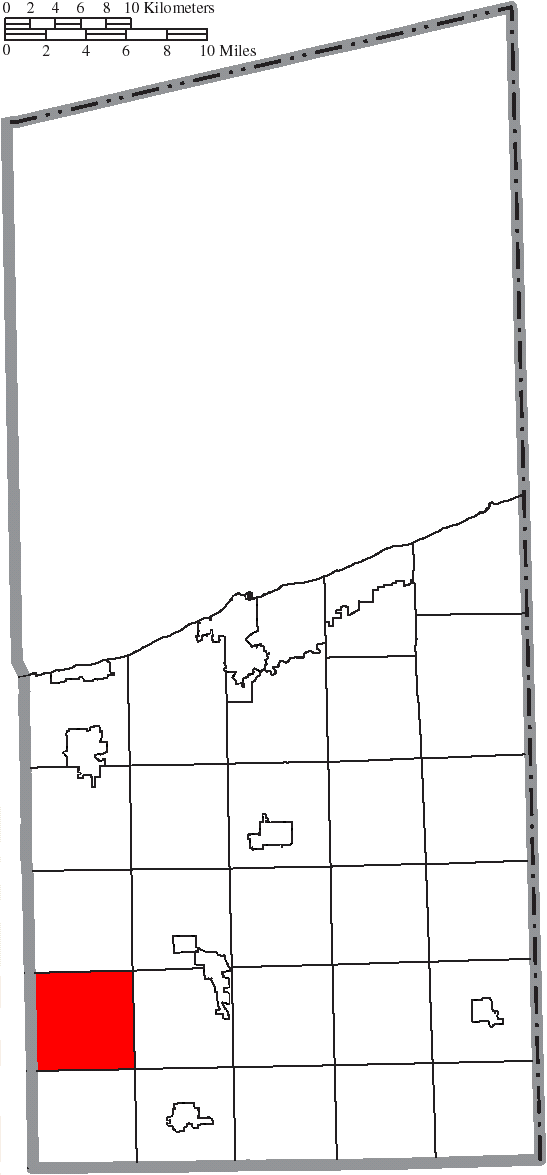 Map of the municipal and township boundaries of Ashtabula County, Ohio, United States, as of the 2000 census, with the location of Hartsgrove Township highlighted. Township borders are shown only in unincorporated areas in order to differentiate incorporated and unincorporated areas more clearly.